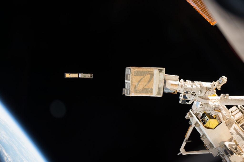 CXBN-2 and IceCube being deployed by the NanoRacks CubeSat Deployer